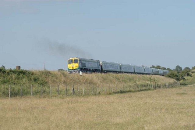 Curragh Irish Rail 201 Class #219 plus new Mk4 coaching stock, races towards Dublin with a Cork to Dublin Express.